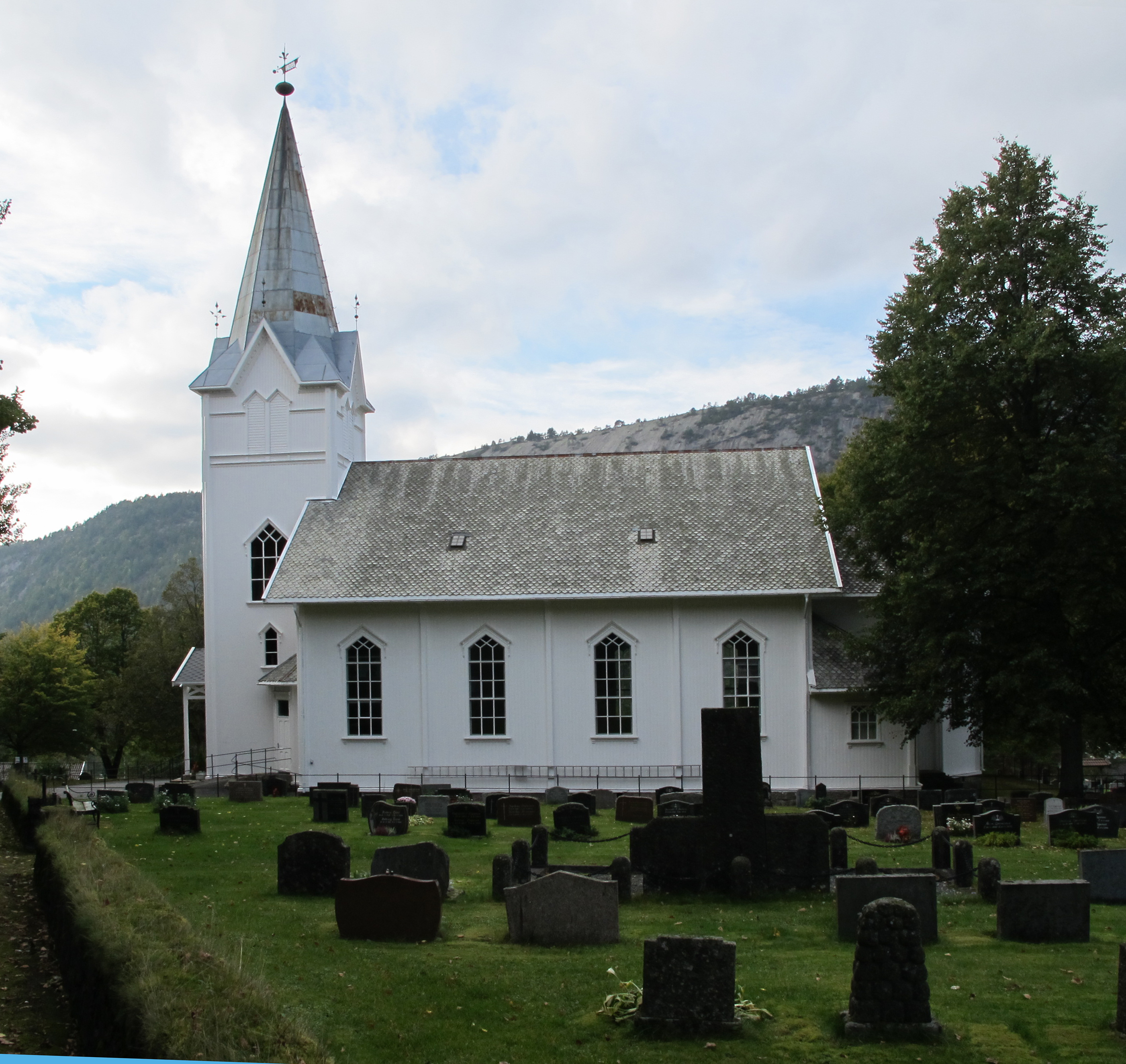 Åmli kirke